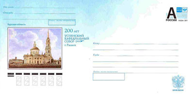 Stamped envelope of Russia. 200th anniversary of the Uspensky Cathedral in Rylsk.